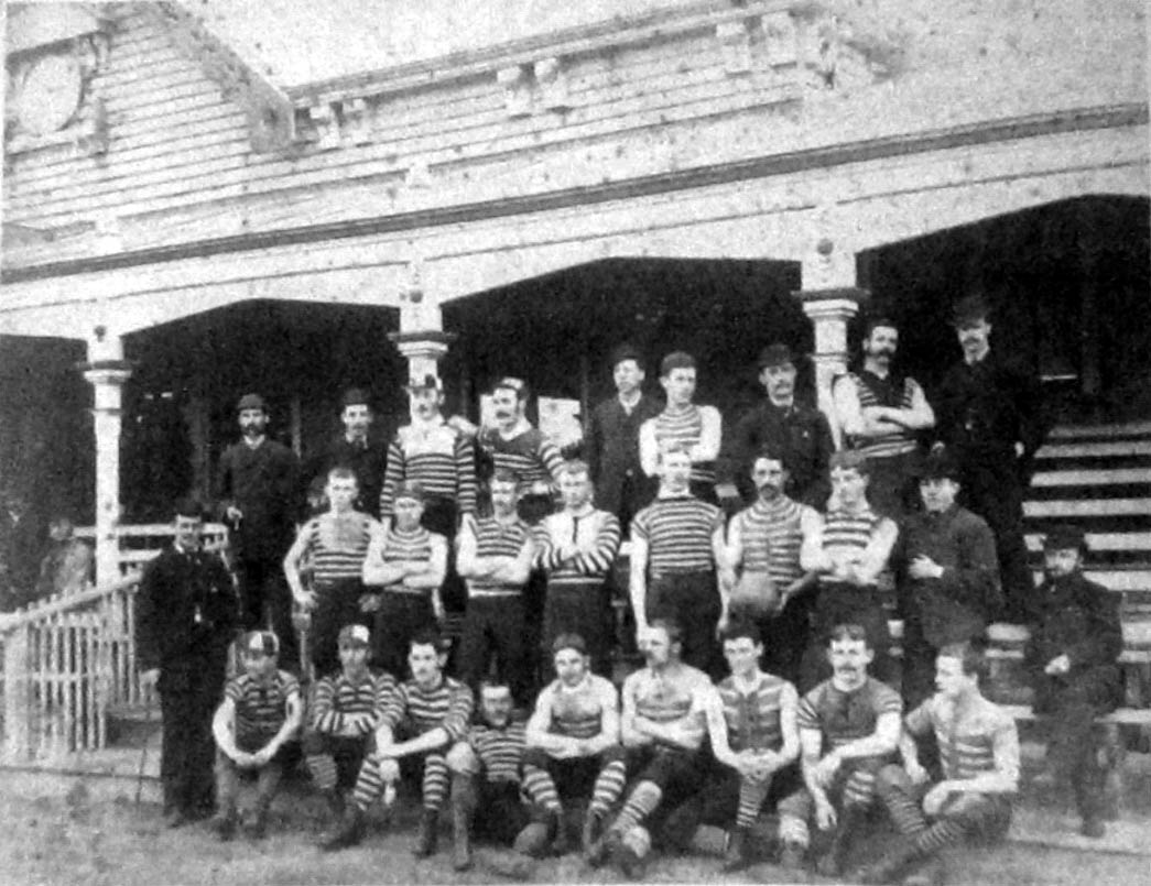 Team of Geelong FC, premiers